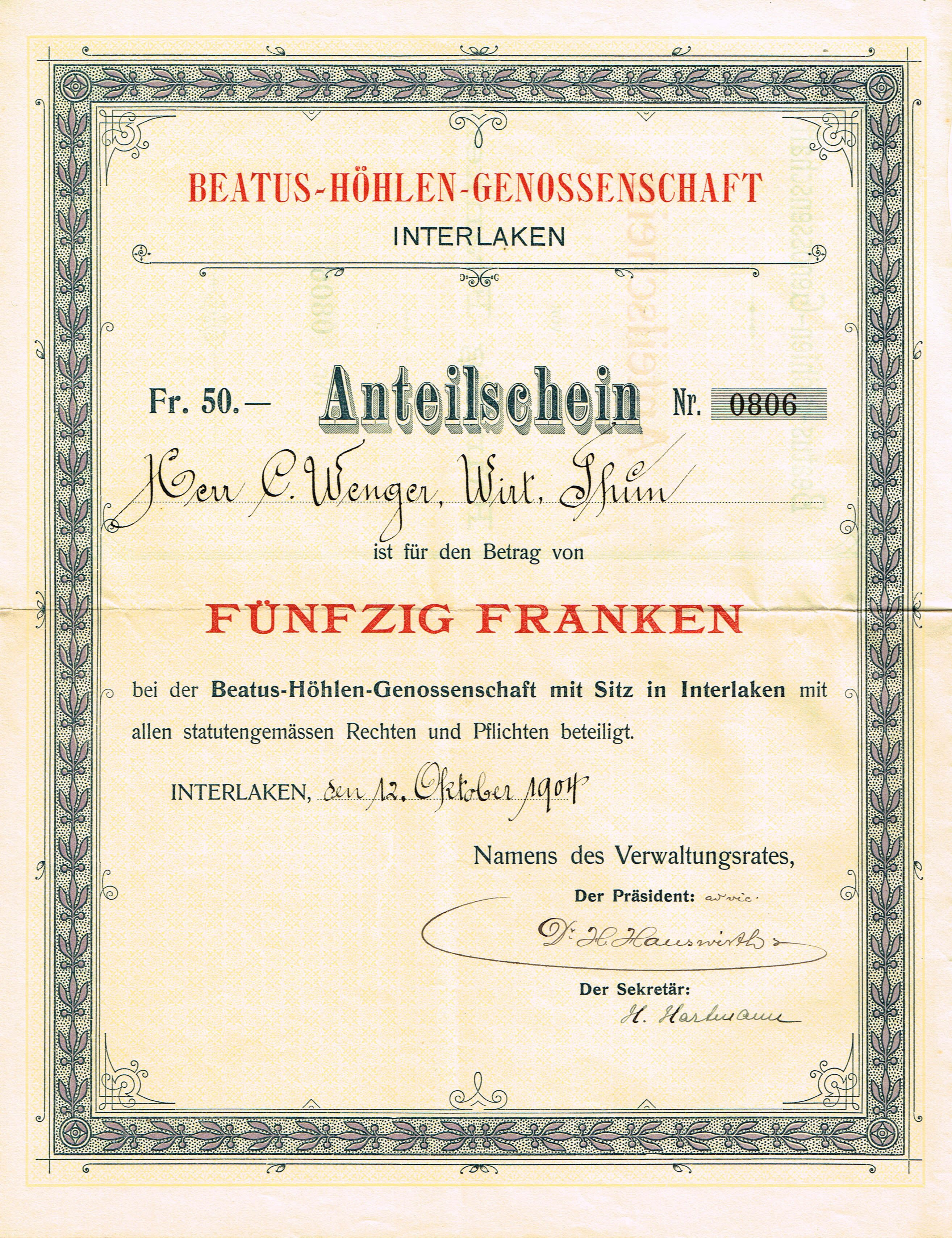 Script of the Beatus-Höhlen-Genossenschaft, issued 12. October 1904